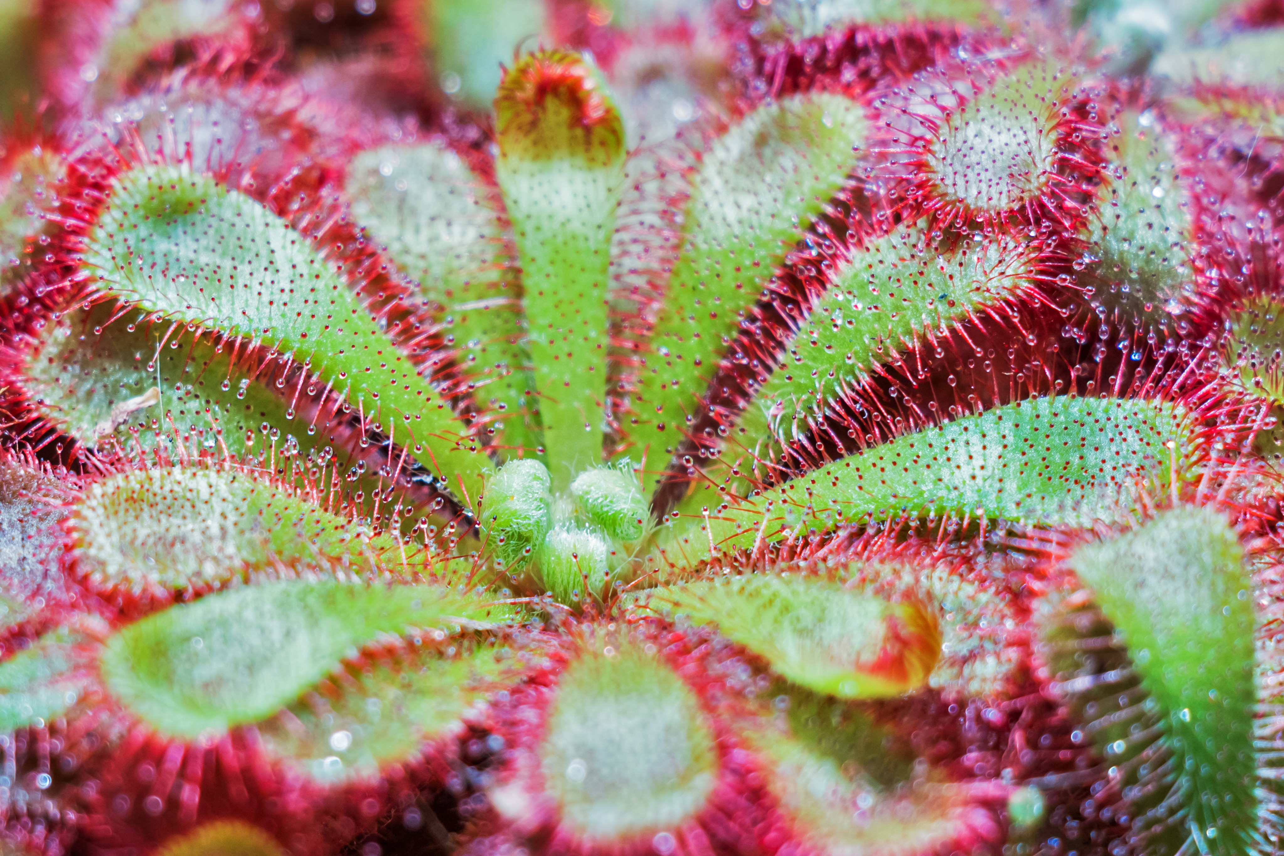 Cape sundew